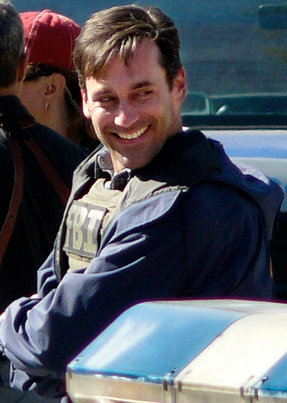 Jon Hamm on the set of The Town in Boston.